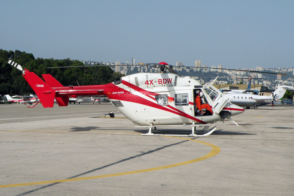 Kawasaki BK117A-4 at Haifa U. Michaeli Airport - LLHA